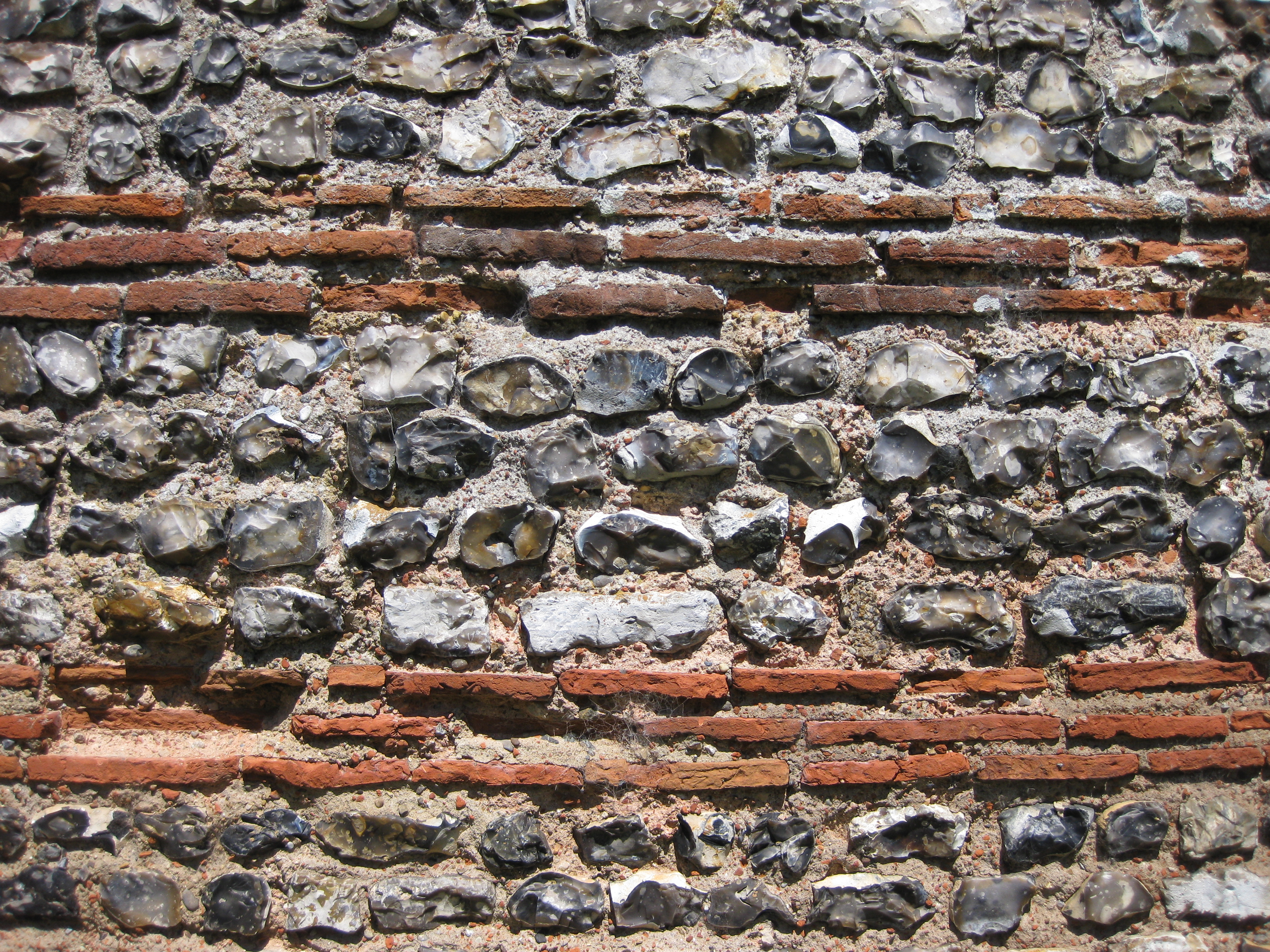 Gariannonum Burgh Castle south wall well preserved close up